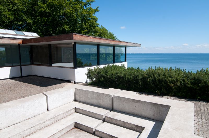 Louisiana Museum of Modern Art